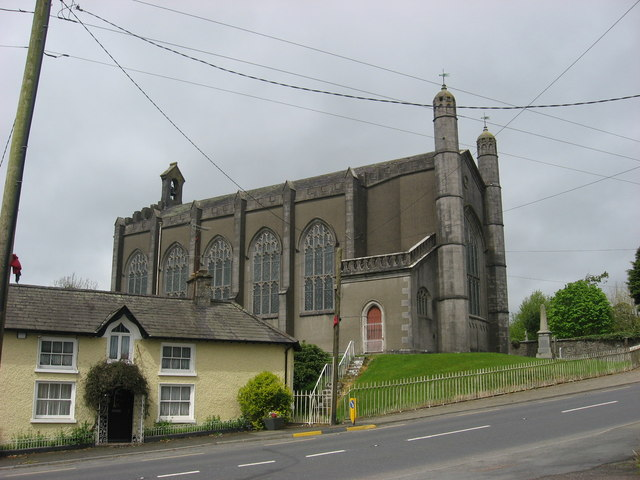 Parish Church, Collon, Co. Louth The foundation stone of the Church of Ireland parish church was laid in July 1811. Designed by the rector, Rev. Daniel Beaufort, it was modelled on the Chapel of King's College, Cambridge. This info from The Buildings of Ireland: North Leinster.